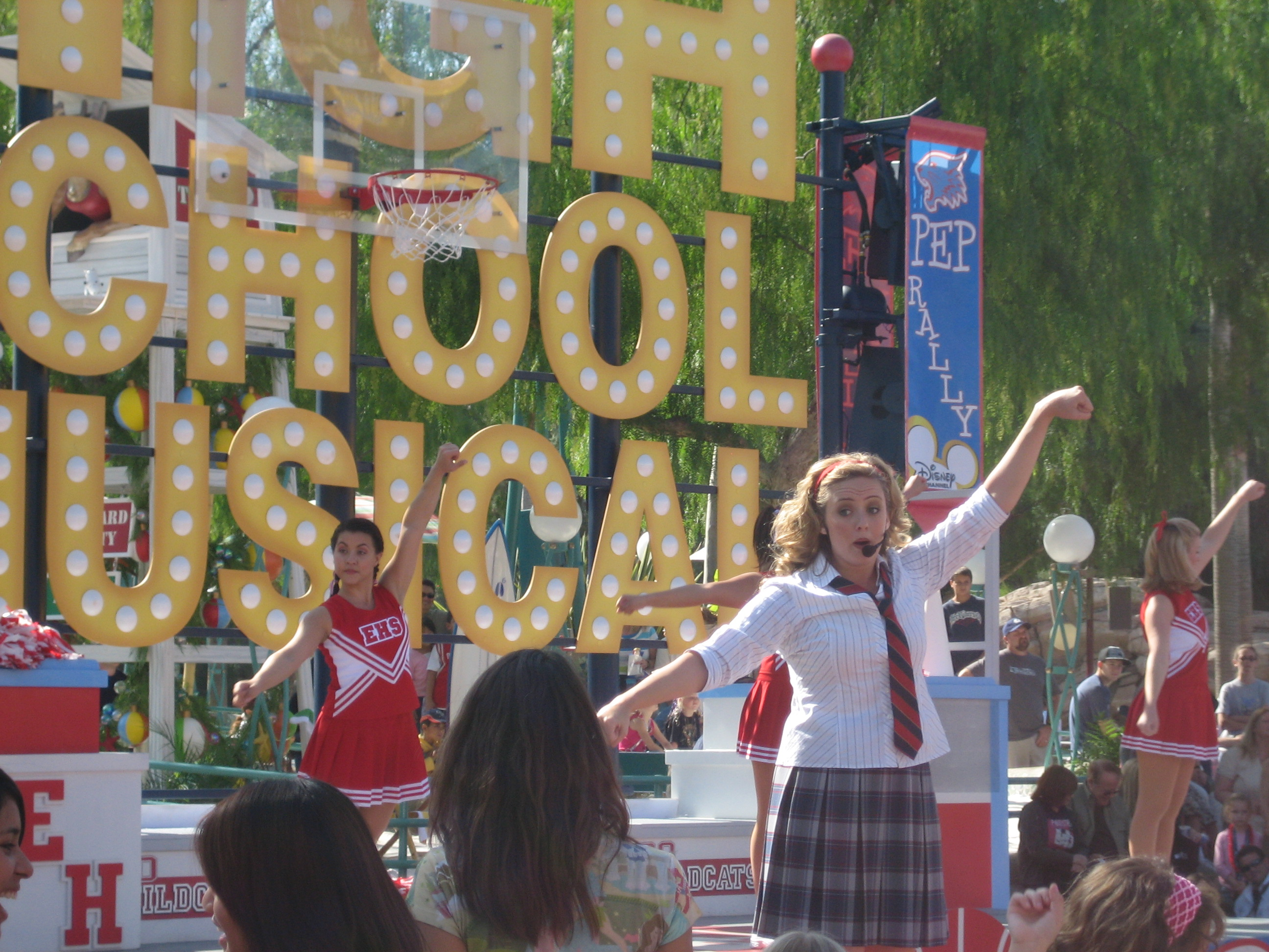 Parade of High School Musical a Disney production